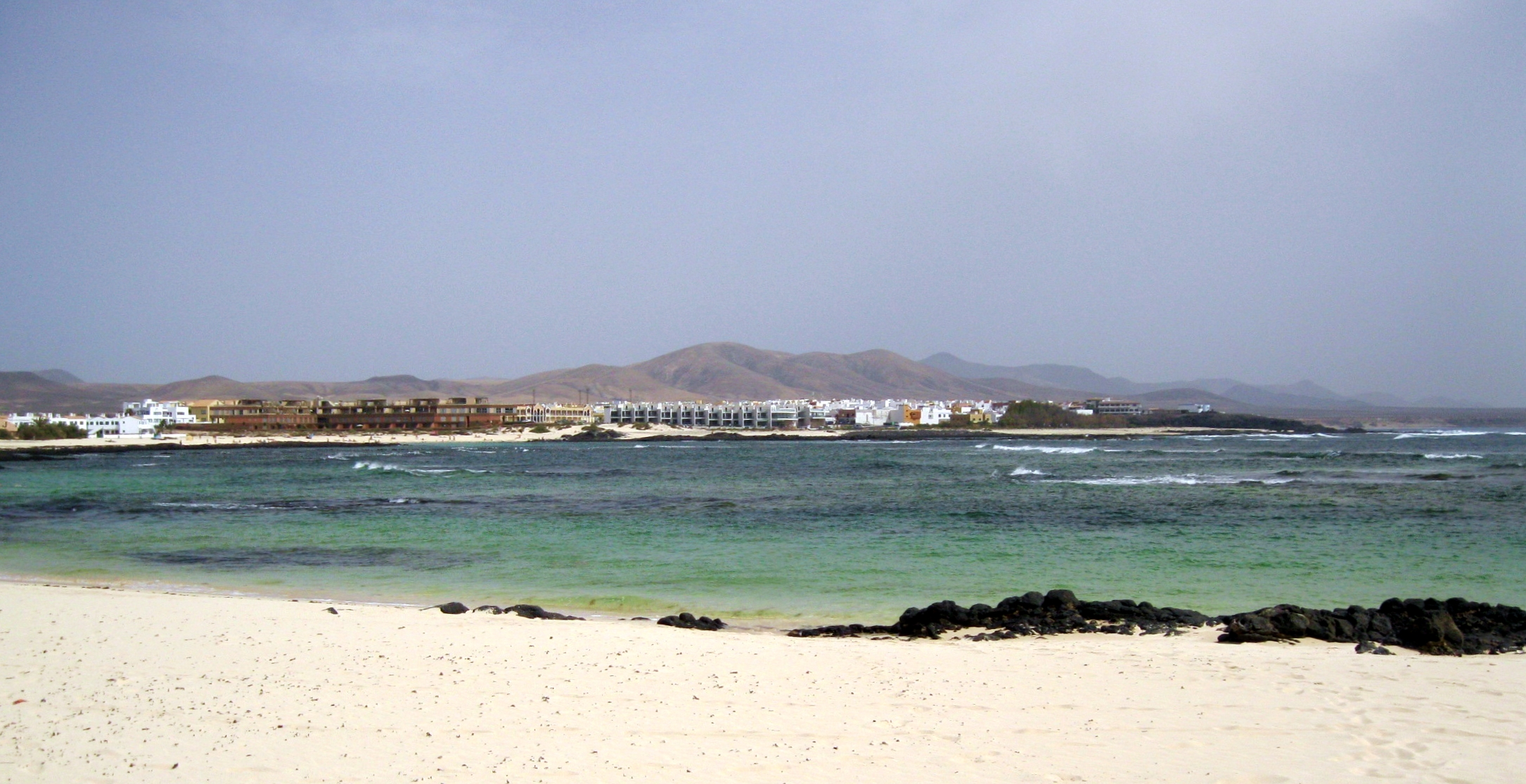 North of El Cotillo